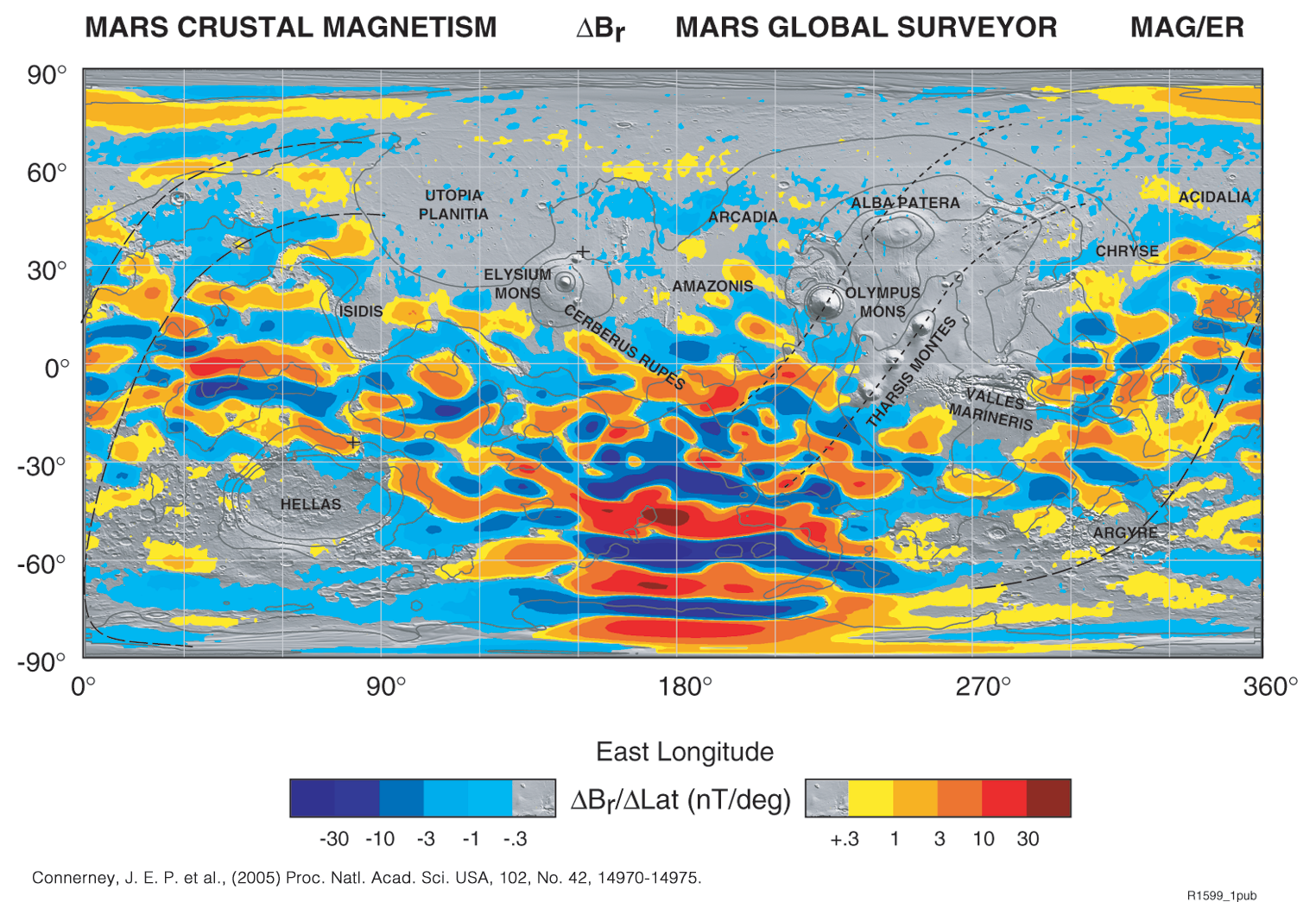 The global map is built up from many thousands of orbits at constant altitude (mapping orbit), and uses colors to represent the strength and direction of the field caused by crustal magnetization. It's originally in TIFF format. I transformed it into PNG format by Photoshop 7.0.1 to make it visible on the net.